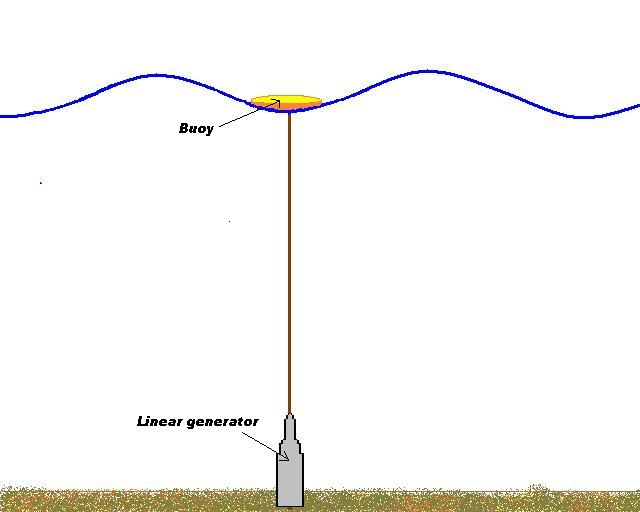 The basic principle of the WEC used in the Lysekil project